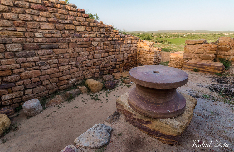 Dholavira is an archaeological site in Kutch district, India. It is one of the five largest Harappan sites and most prominent archaeological sites in India belonging to the Indus Valley Civilizations. The site was occupied from c.2650 BCE, declining slowly after about 2100 BCE. It was briefly abandoned then reoccupied until c.1450 BCE.